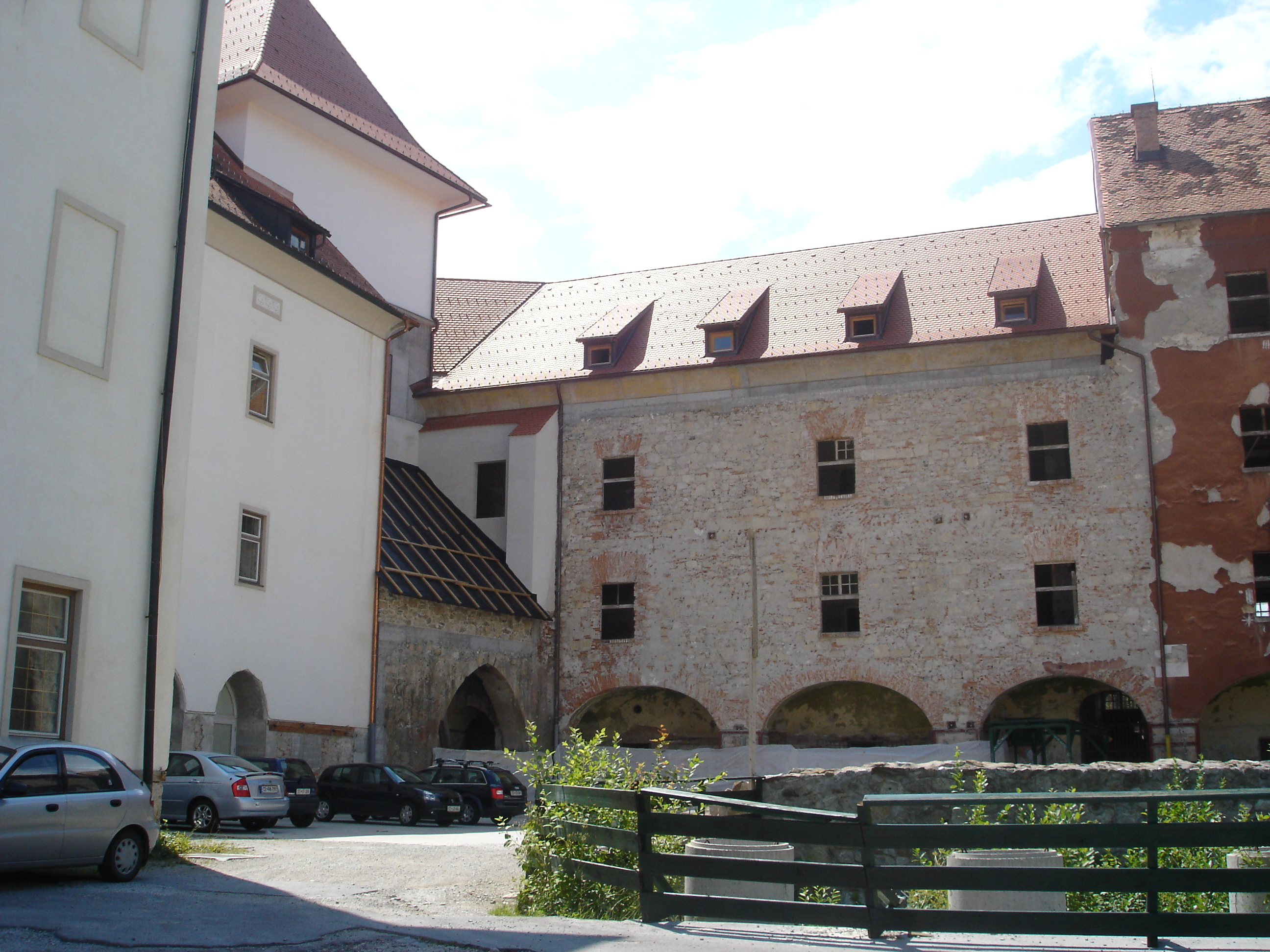 Ducal Court (Celje)